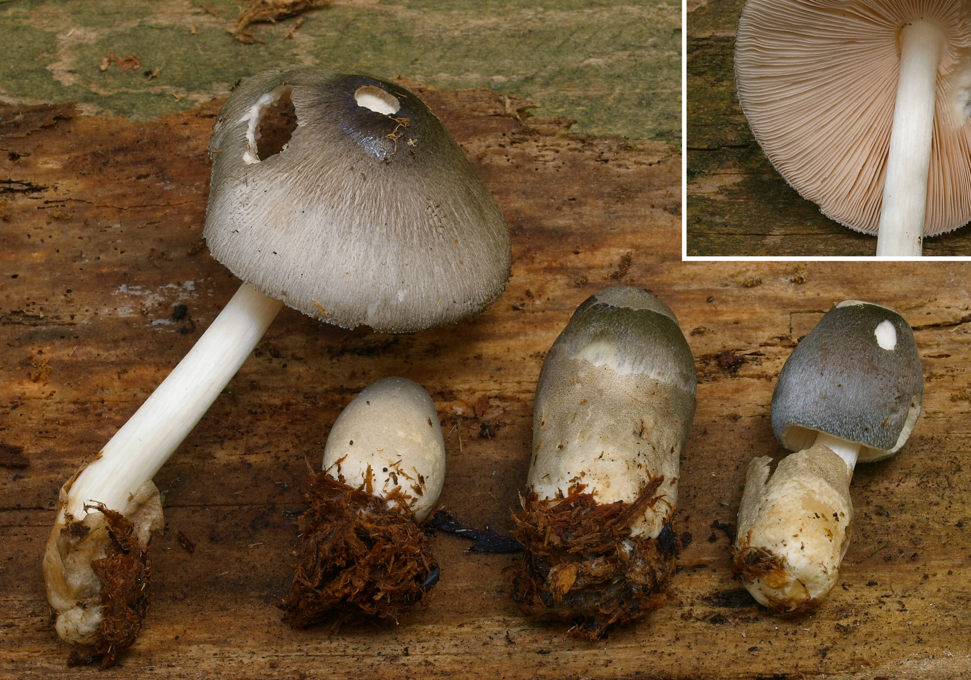 Volvariella nigrovolvacea